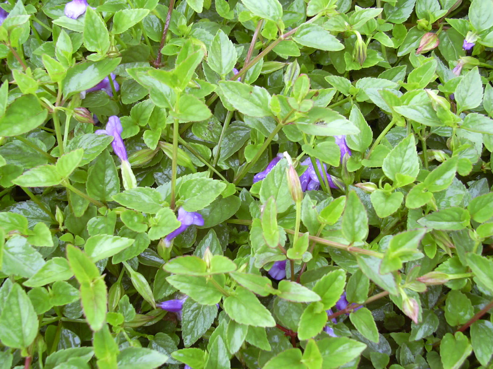 Torenia glabra (flowers). Location: Hawaii, Hilo